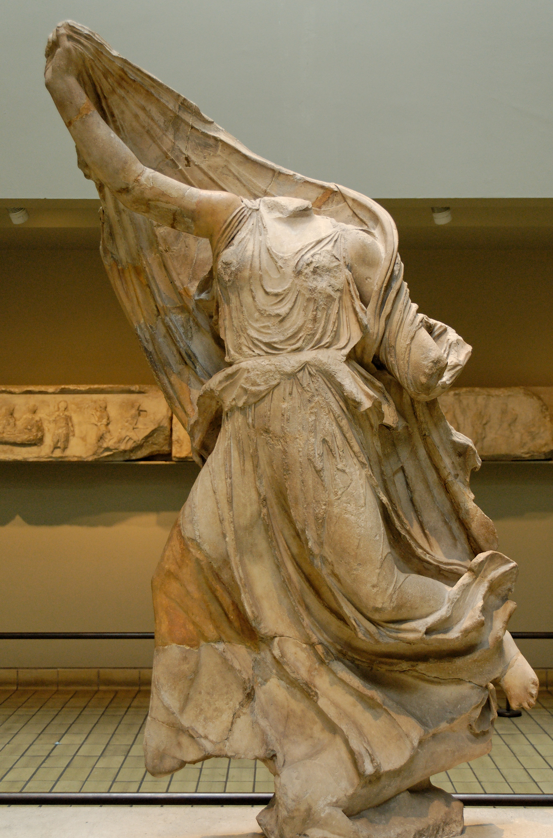 Nereid, originally placed on the podium, between the columns of the Nereid Monument.